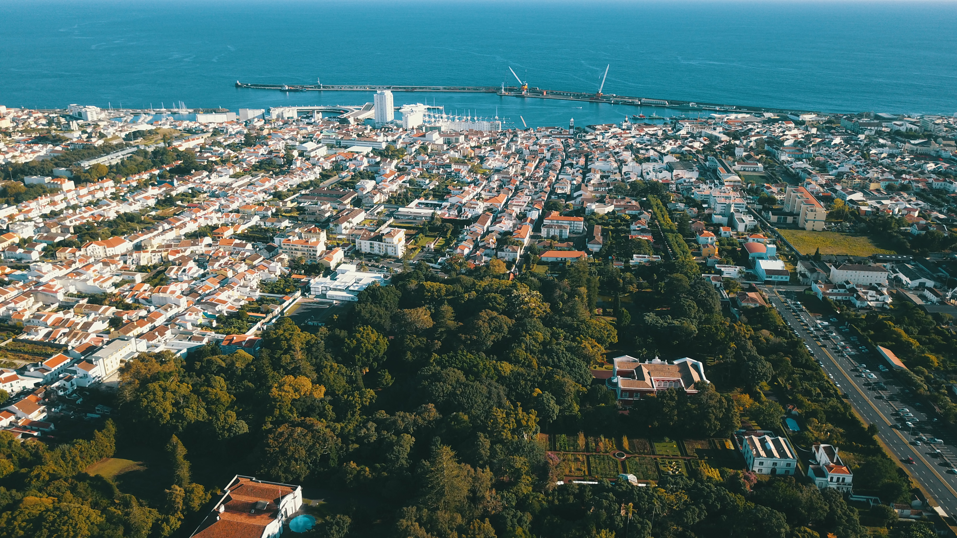 Ponta Delgada is the biggest town of the Azores, located on São Miguel island. In this shot from north to south you see the Jardim do Palácio de Sant‘Ana with the palace for the governor, i. e. the president of the regional government of the Azores. In the background the harbour.